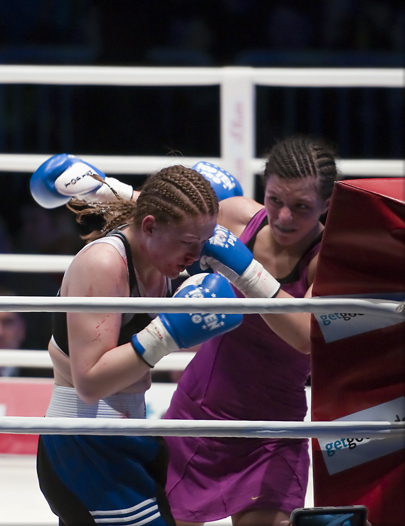 2011 boxing event in Stožice Arena